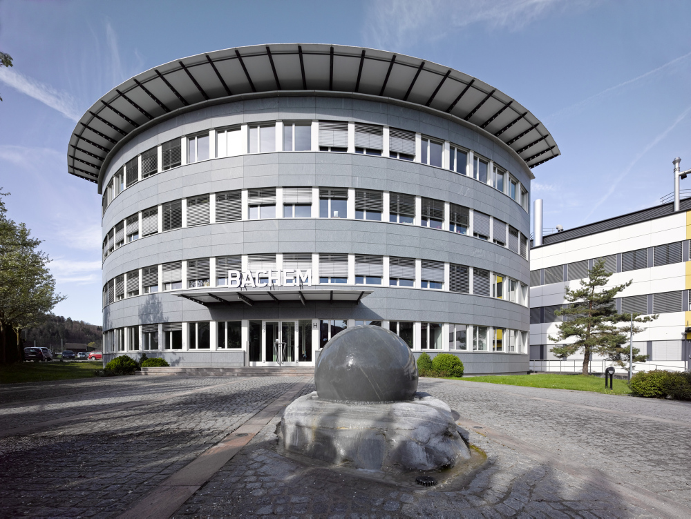 Bachem Hauptsitz in Bubendorf, Schweiz